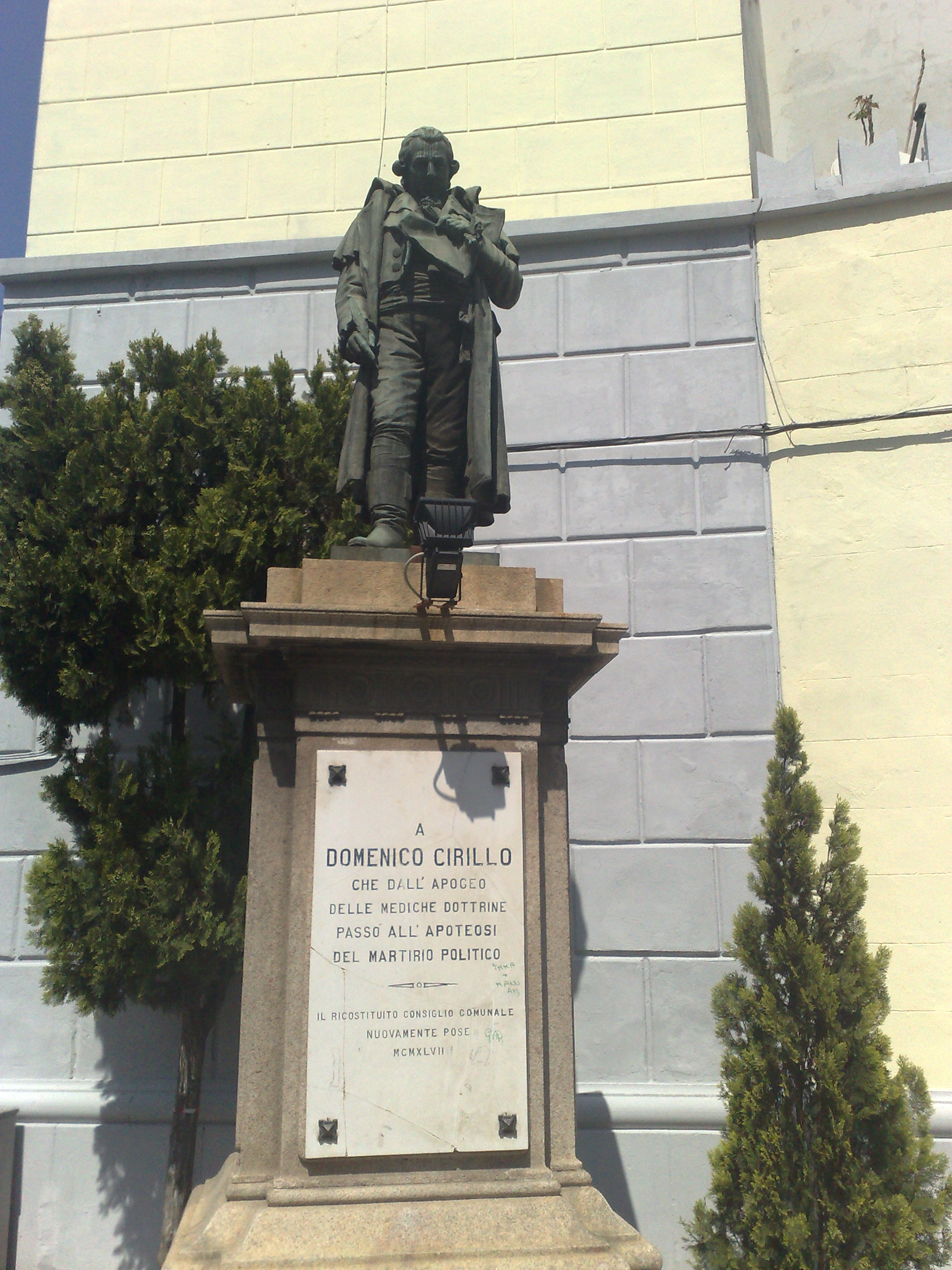 Statue of Domenico Cirillo Grumo in Nevano (NA)